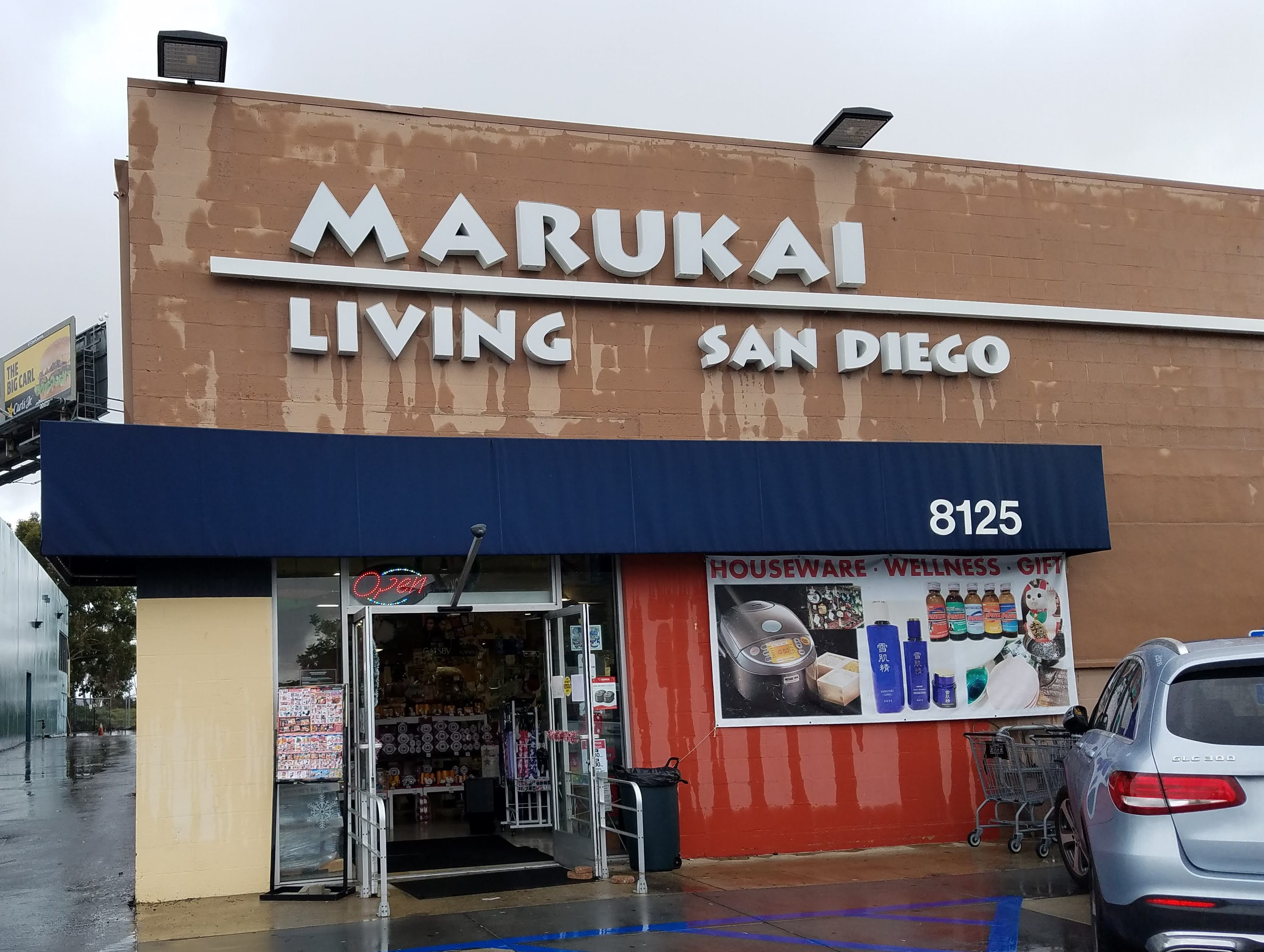 201912 Marukai Living in San Diego in December, 2019